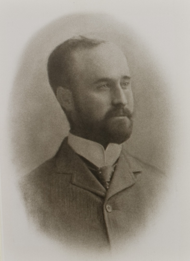 Charles William Jarvis (1866-1932) served as Mayor of Port Arthur in 1899 and 1900. An insurance agent and bank manager, he also served as Member of the Legislative Assembly for the Fort William riding from 1911 to 1919. For more information see the Past Mayors and Councils exhibit, This image is in the public domain as all copyright has expired.